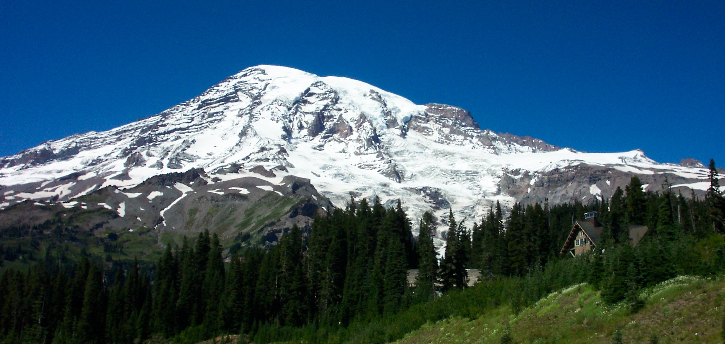 A photo of Mount Rainier taken from Paradise